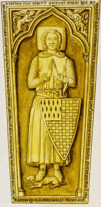 Peter I of Brittany